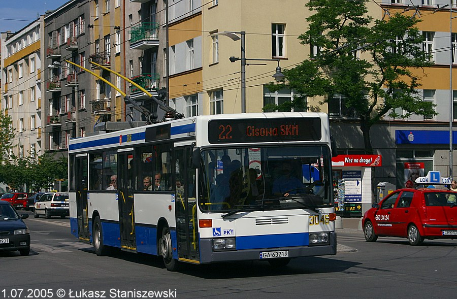 Trolleybus Mercedes-Benz O405NE (#3046) assembled in Gdynia from used german buses and electric engines from used trolleybuses Jelcz PR110E. Gdynia, Świętojańska st. Year built 1993.